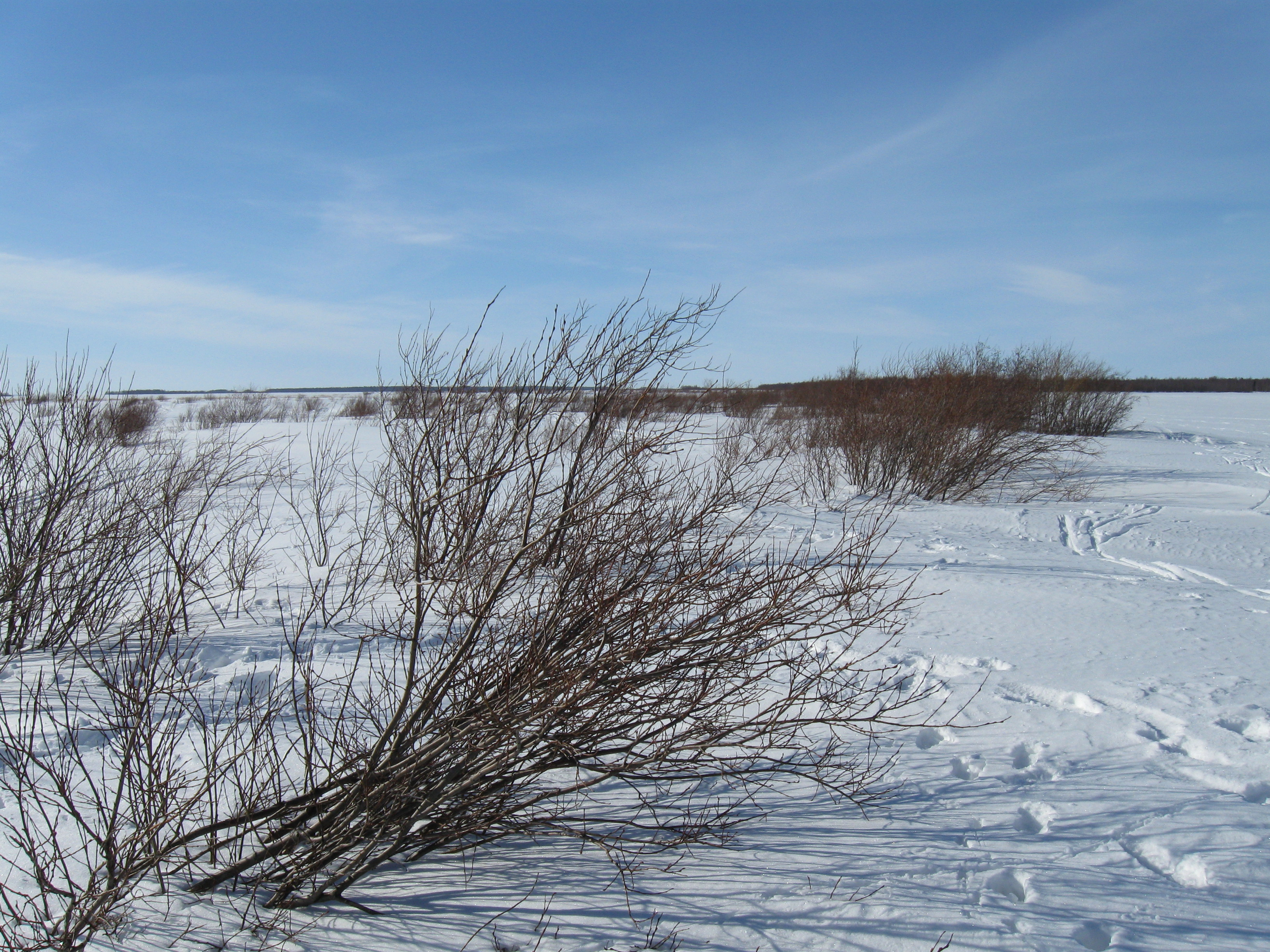 The eastern shore of the Kraaseli island in Kello, Finland, seen towards the North.